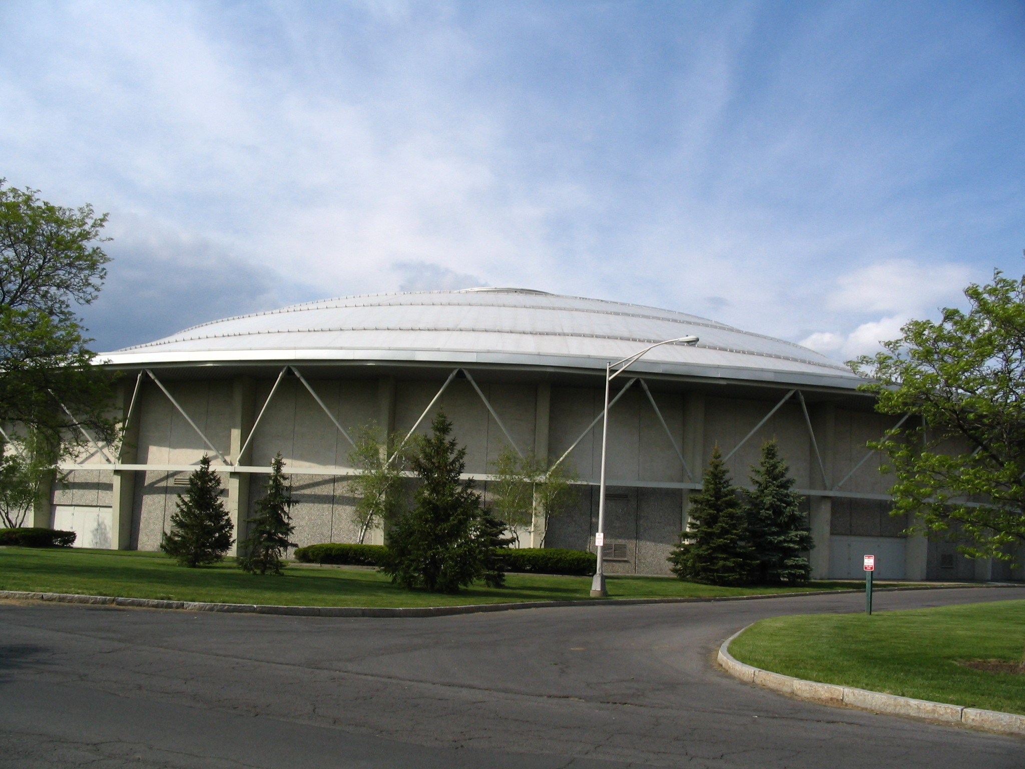 This is an image of Manley Field House that I took with my digital camera. This building is located on Syracuse University